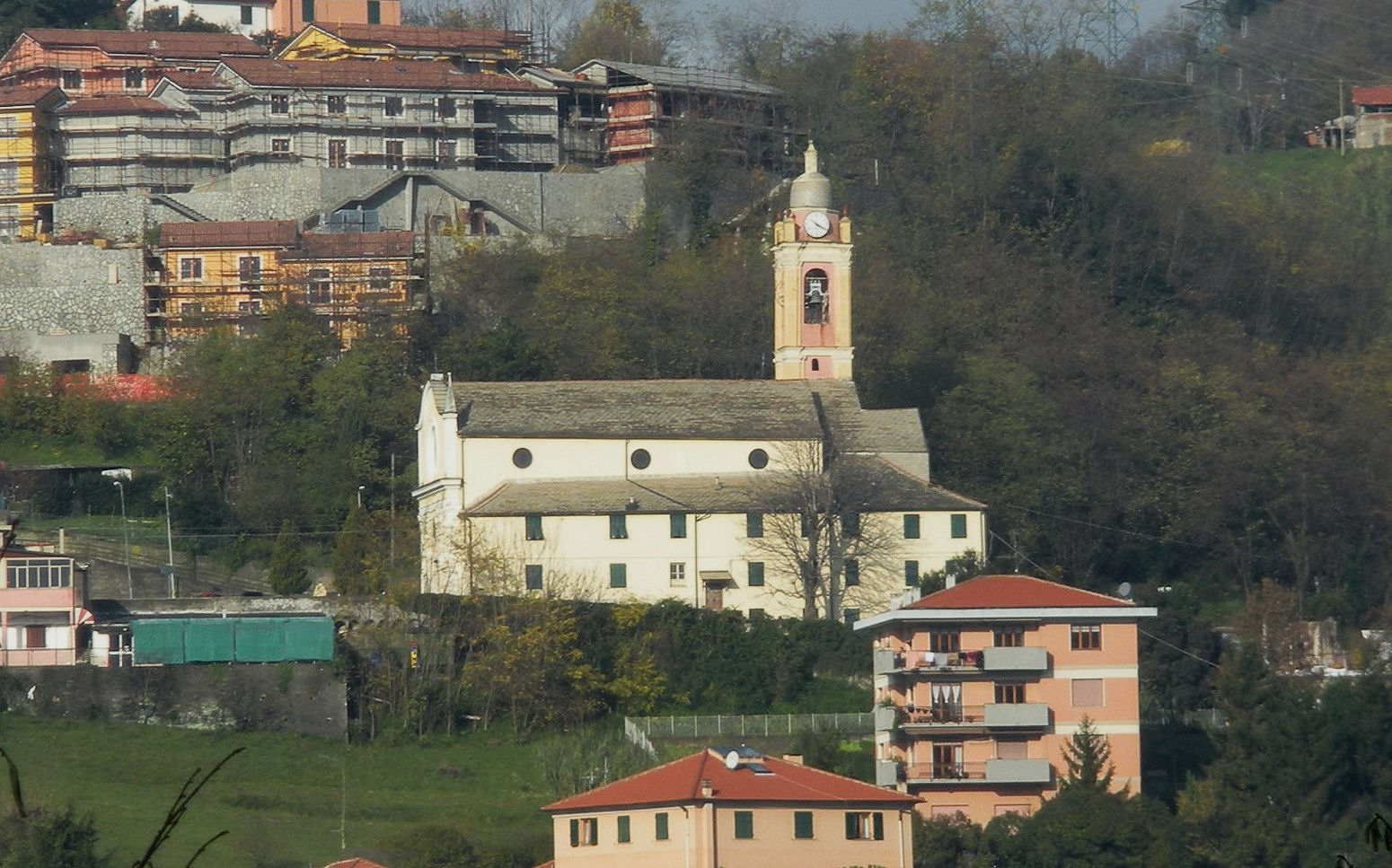 Genoa (Italy), quarter of Bolzaneto, the church of St. Andrew at Morego